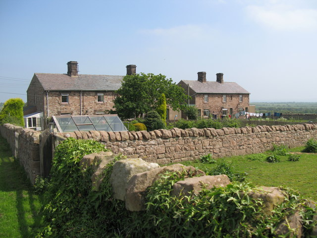 Fenwick Stead Farm cottages at Fenwick Stead. They have a view to Holy Island.